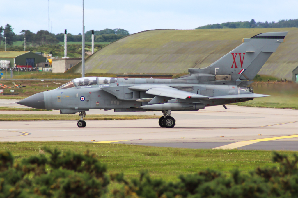 ZA602/F Tornado GR-4 "F for Freddie" at RAF Lossiemouth